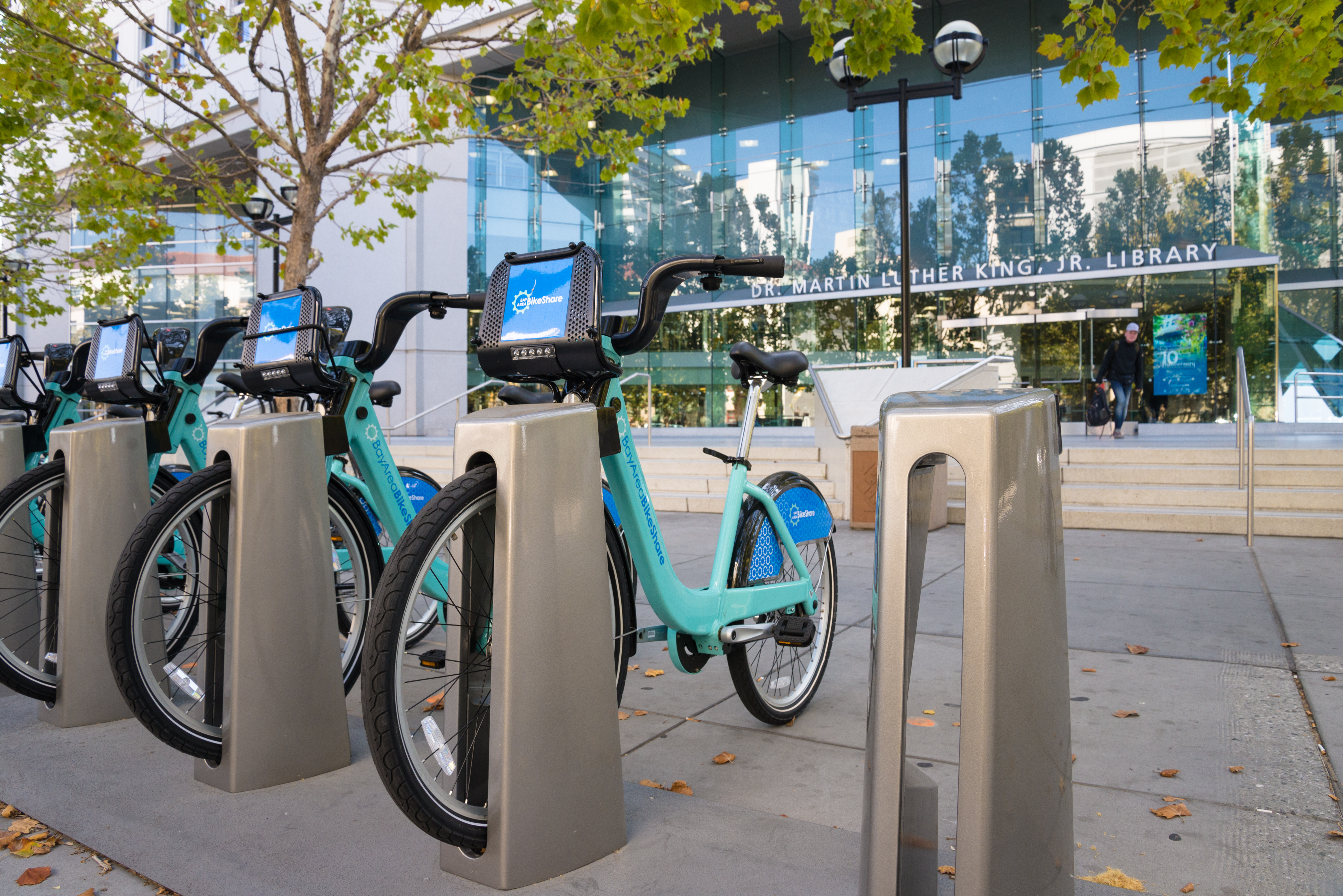 Photo by Sergio Ruiz